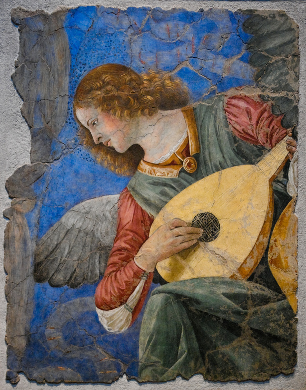 A fragment of a circa-1480 fresco of an angel with a halo strumming a lute and glancing downward. The original fresco fragment is in Room IV of the Vatican Pinacoteca (art museum), and measures approximately 37 inches by 46 inches.